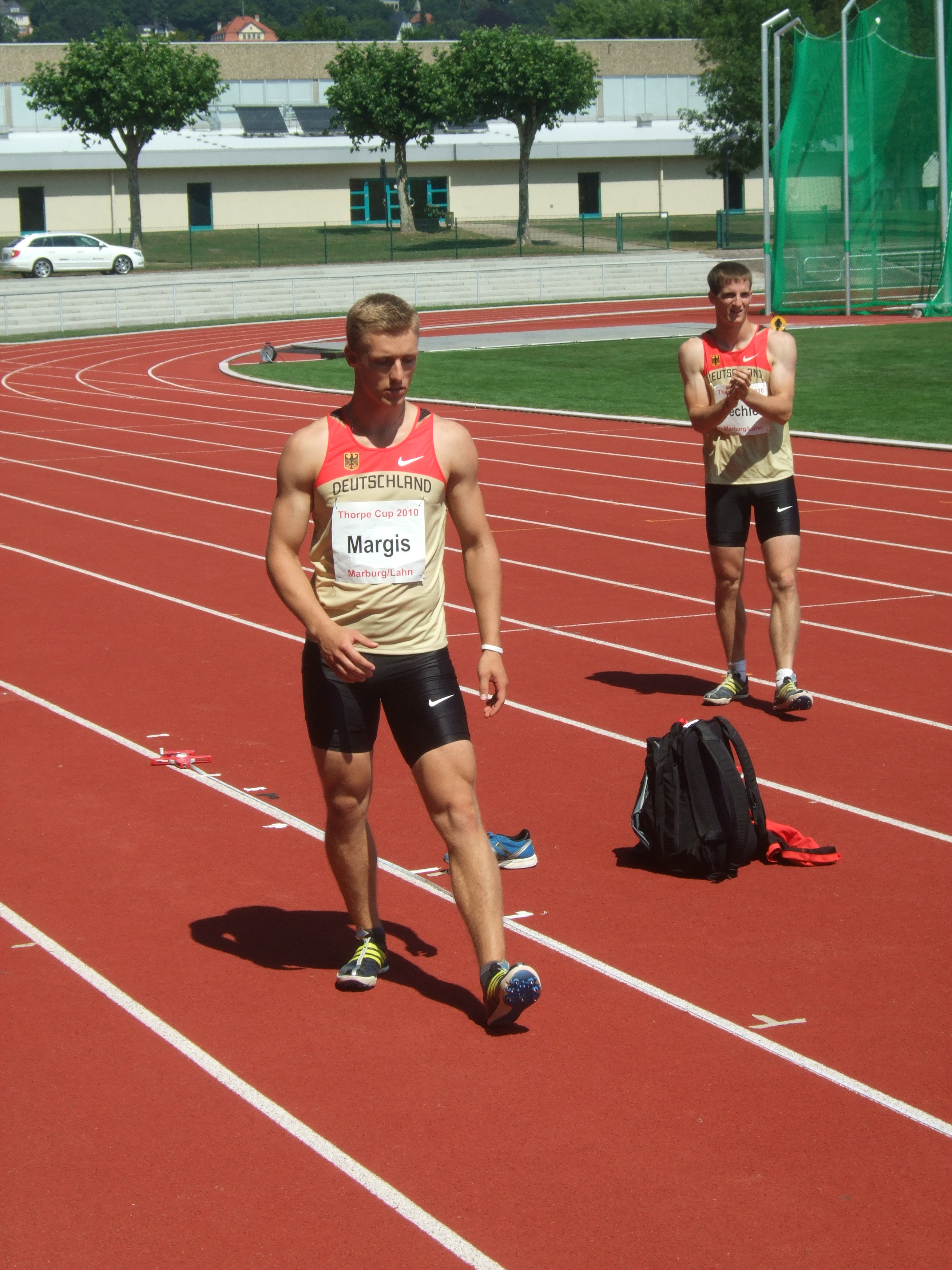 Decathlete Thorsten Margis competing in the long jump at the 2010 Thorpe Cup